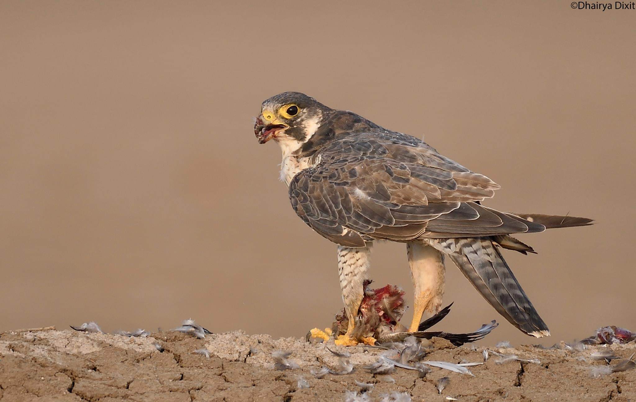 Peregrine Falcon with a kill of common teal in Little Rann of Kutch, Gujarat, India